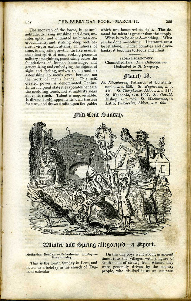 Page from Hone's Every Day Book, showing typical format, illustration and content.